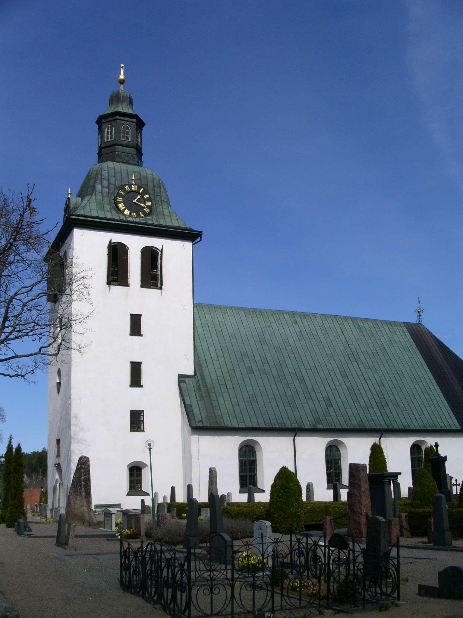 Kisa church, Kinda municipality, in Sweden